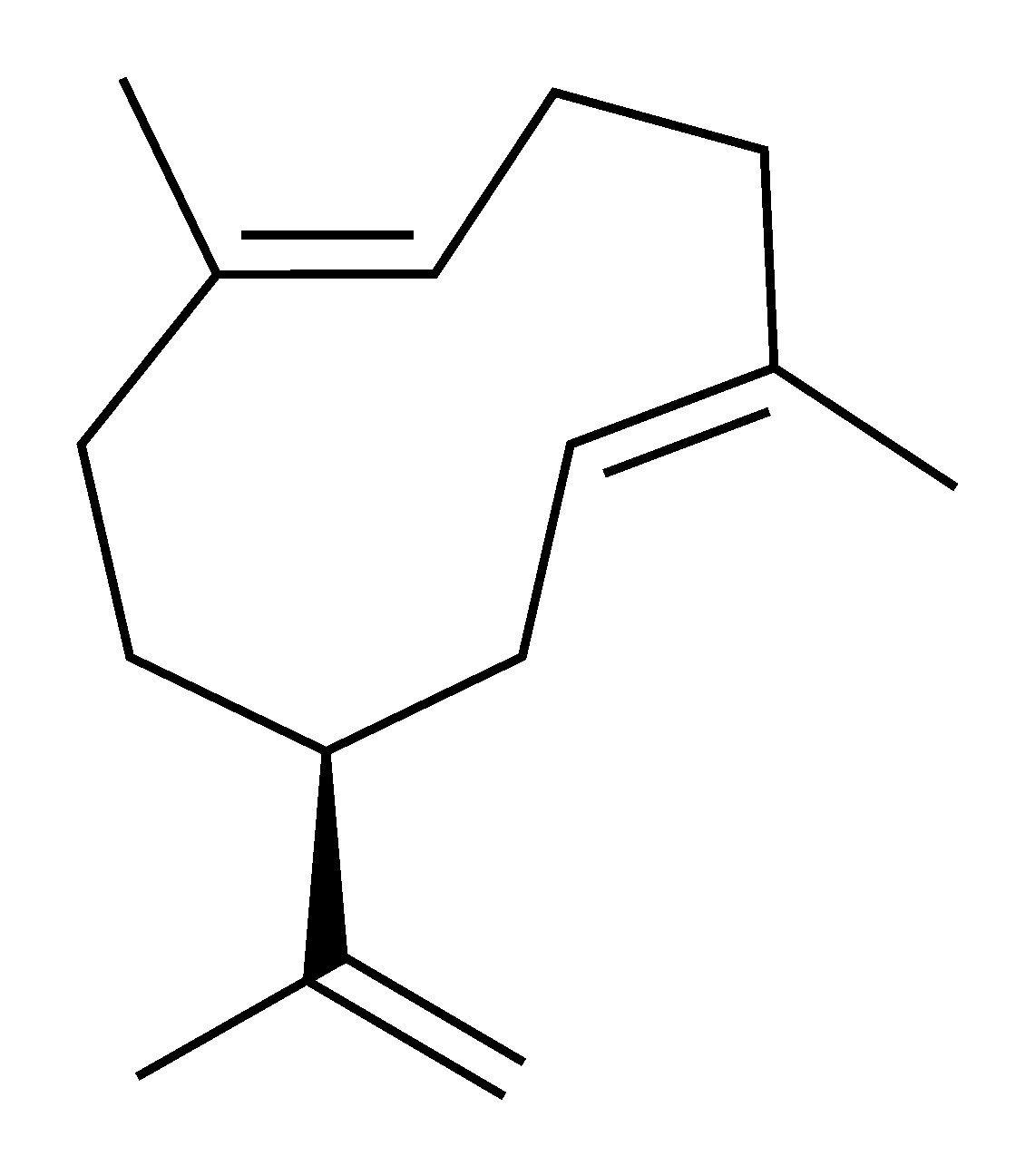 Chemical structure of germacrene A